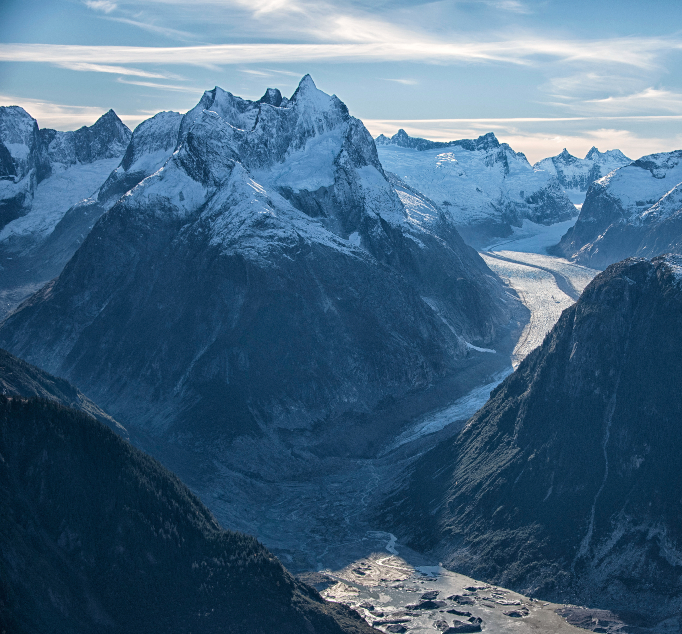 Horn Spire is the highest of the Icefall Spires